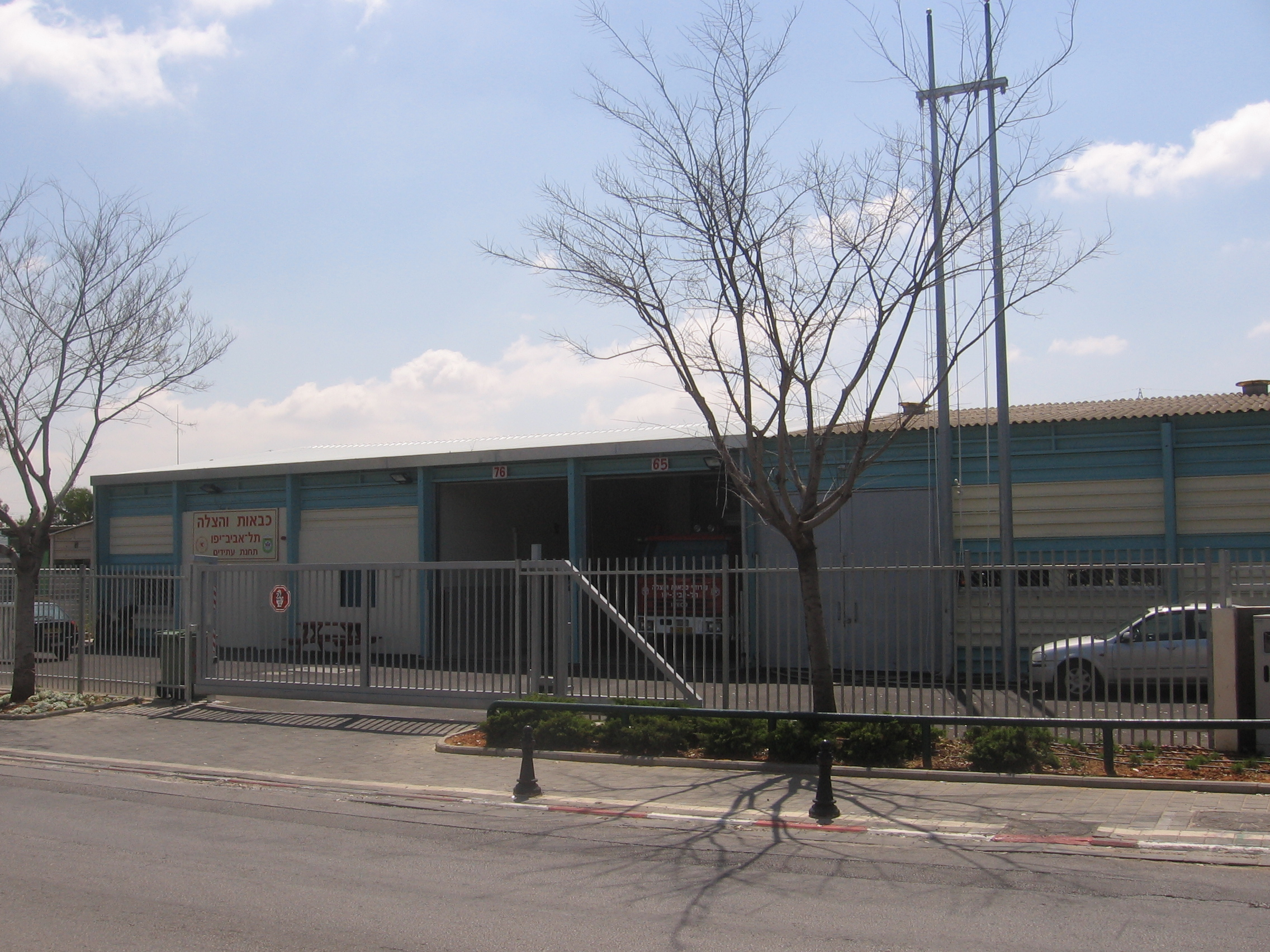 Tel Aviv Fire Department: Atidim station.